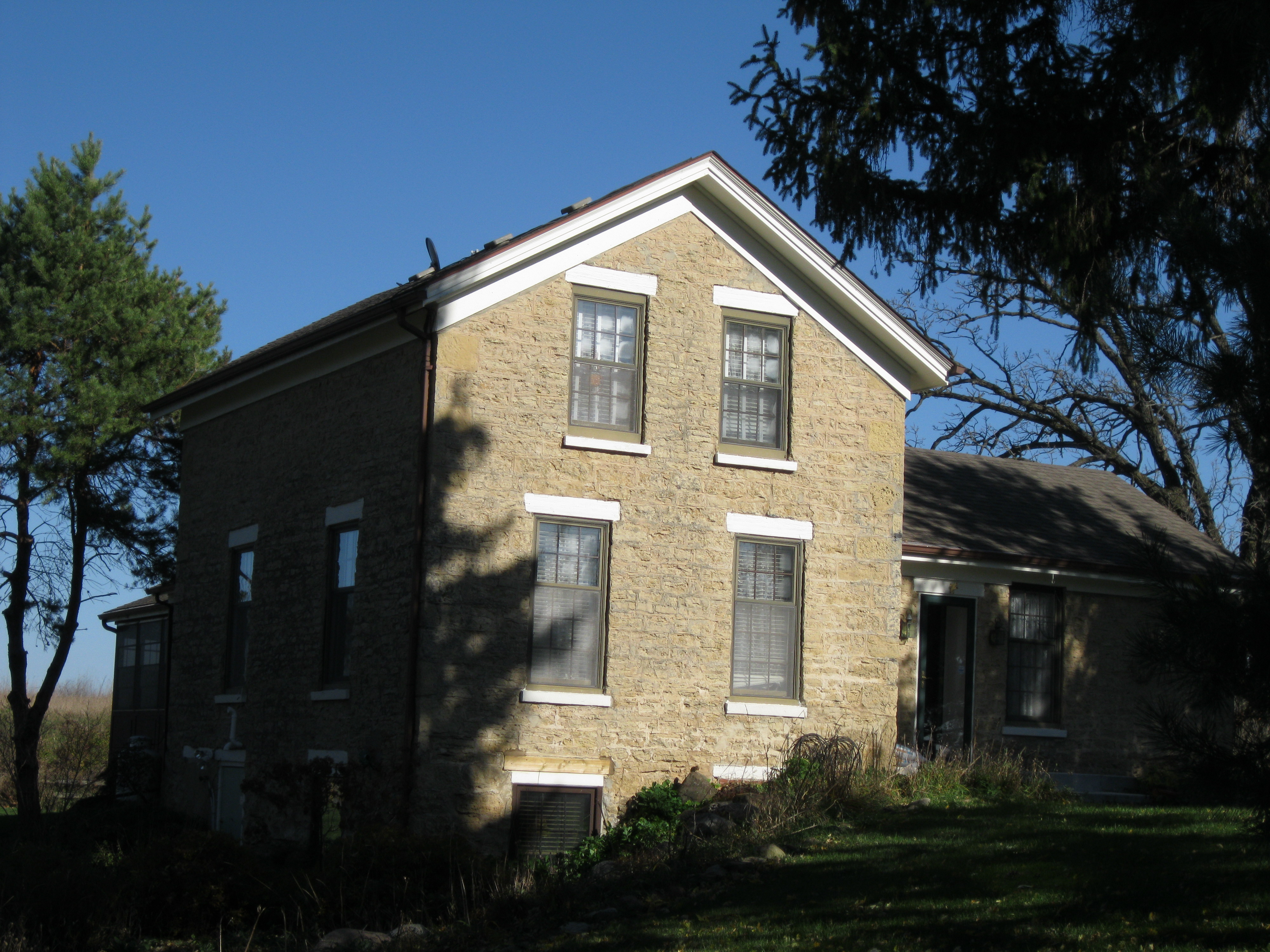 The Daniel Pond Farmhouse, located on U.S. Route 14 east of Brooklyn, Wisconsin.